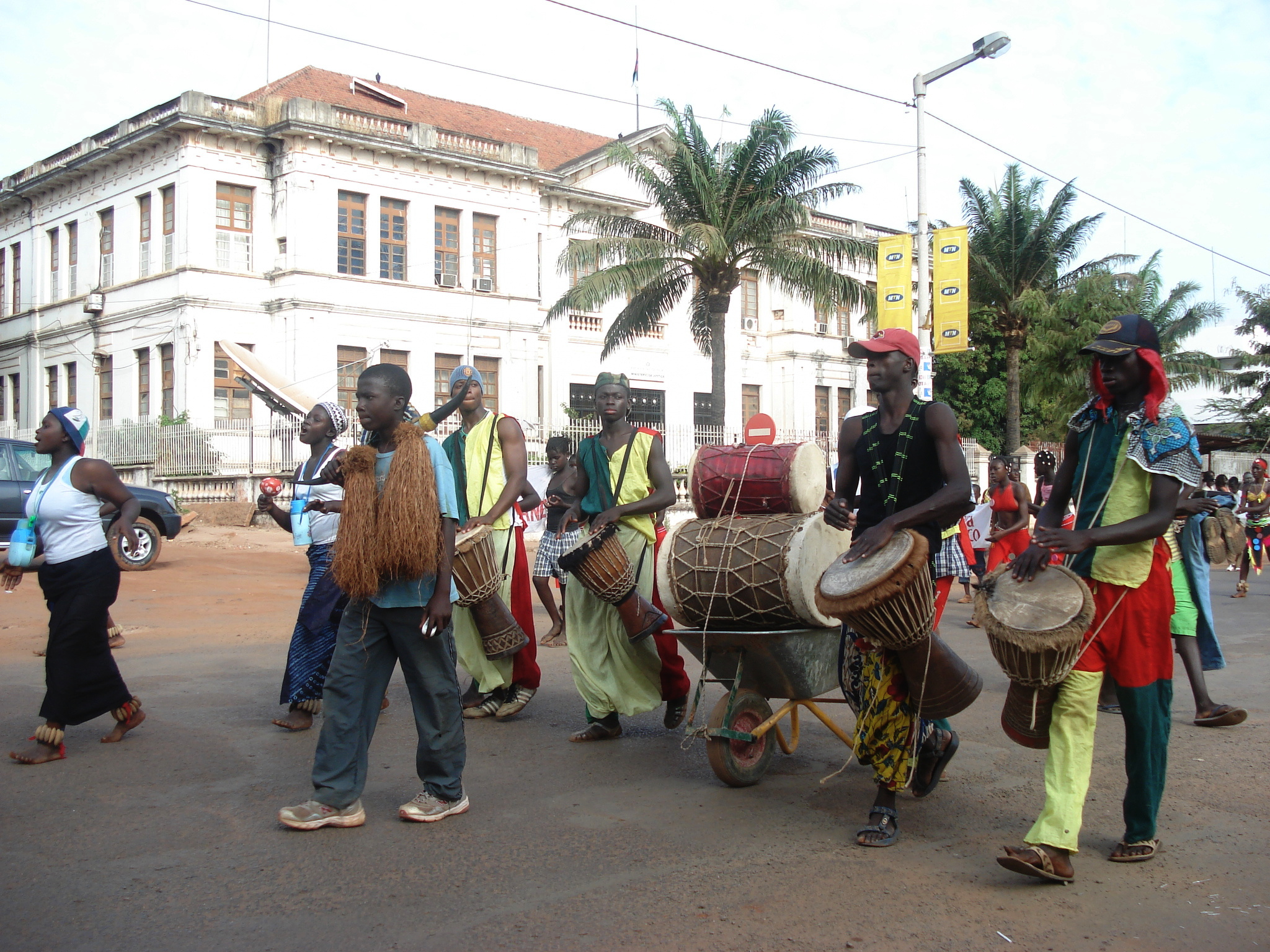 This is an image of Cultural Fashion or Adornment from Guinea-Bissau